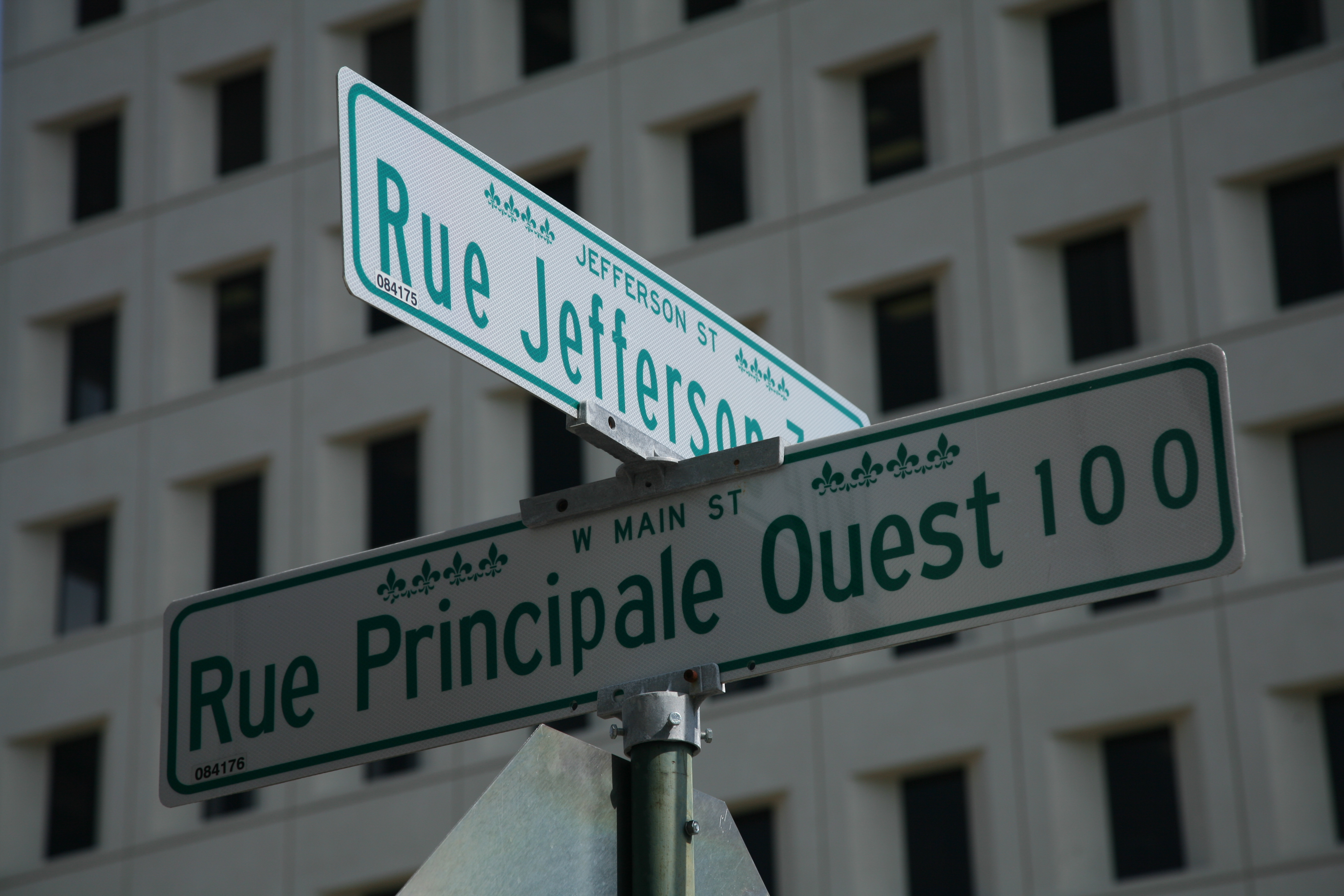 Bilingual street signs in Lafayette, Louisiana